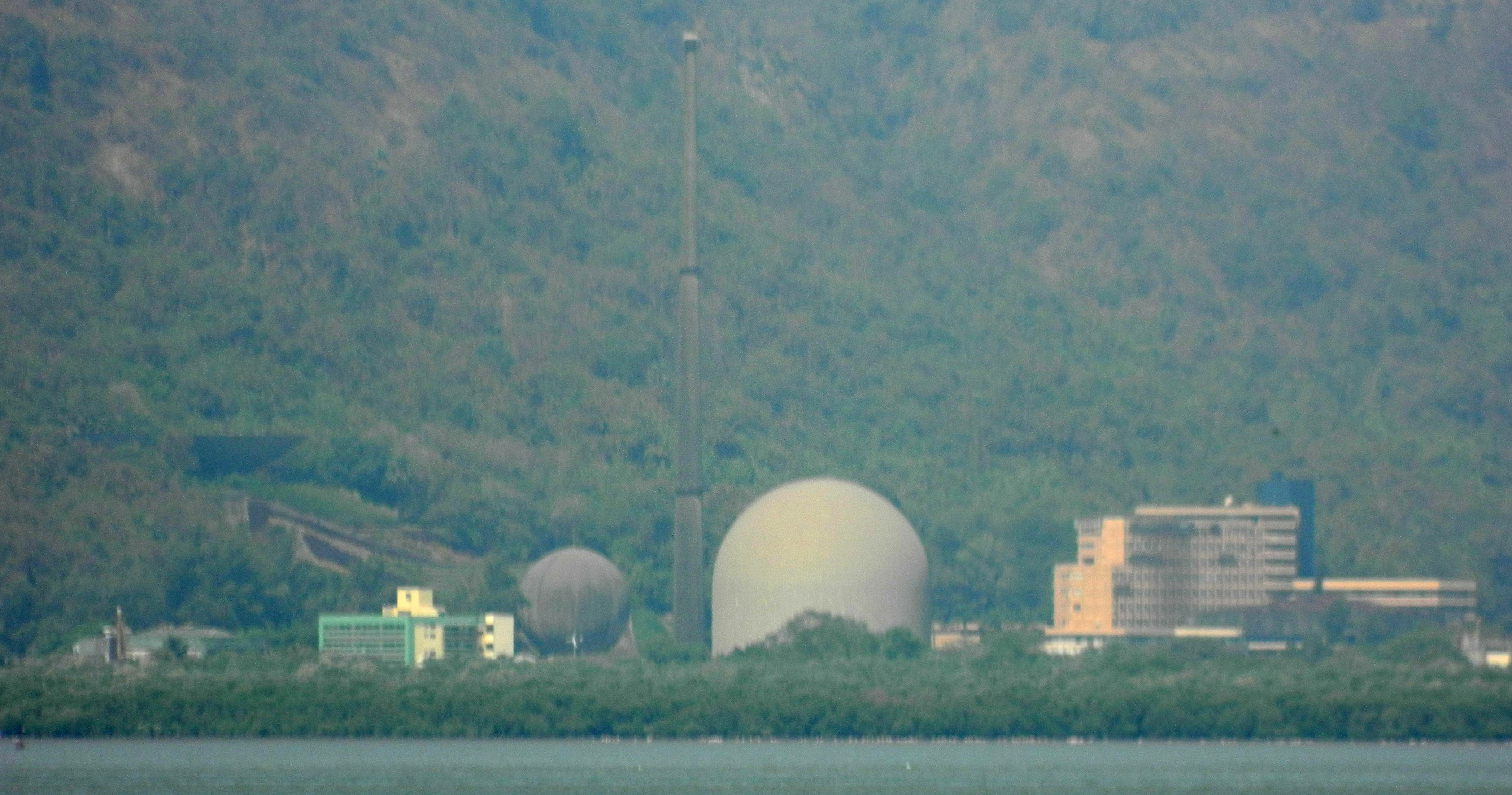 Nuclear reactor of Bhabha Atomic Research Centre (view from Arabian sea)